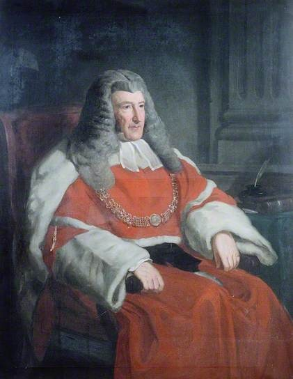 Portrait of John Campbell, 1st Baron Campbell